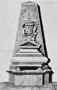 Monument to Lord Belasyse in St Giles in the Fields, London This monument was in the second church. A tablet formerly affixed to the monument is now in the south porch, the text of which is available online: Riley, W. Edward; Gomme, Laurence, eds. (1914), "Church of St. Giles-in-the-Fields", Survey of London, volume 5, part II, London County Council, pp. 127–140. [website British History Online]